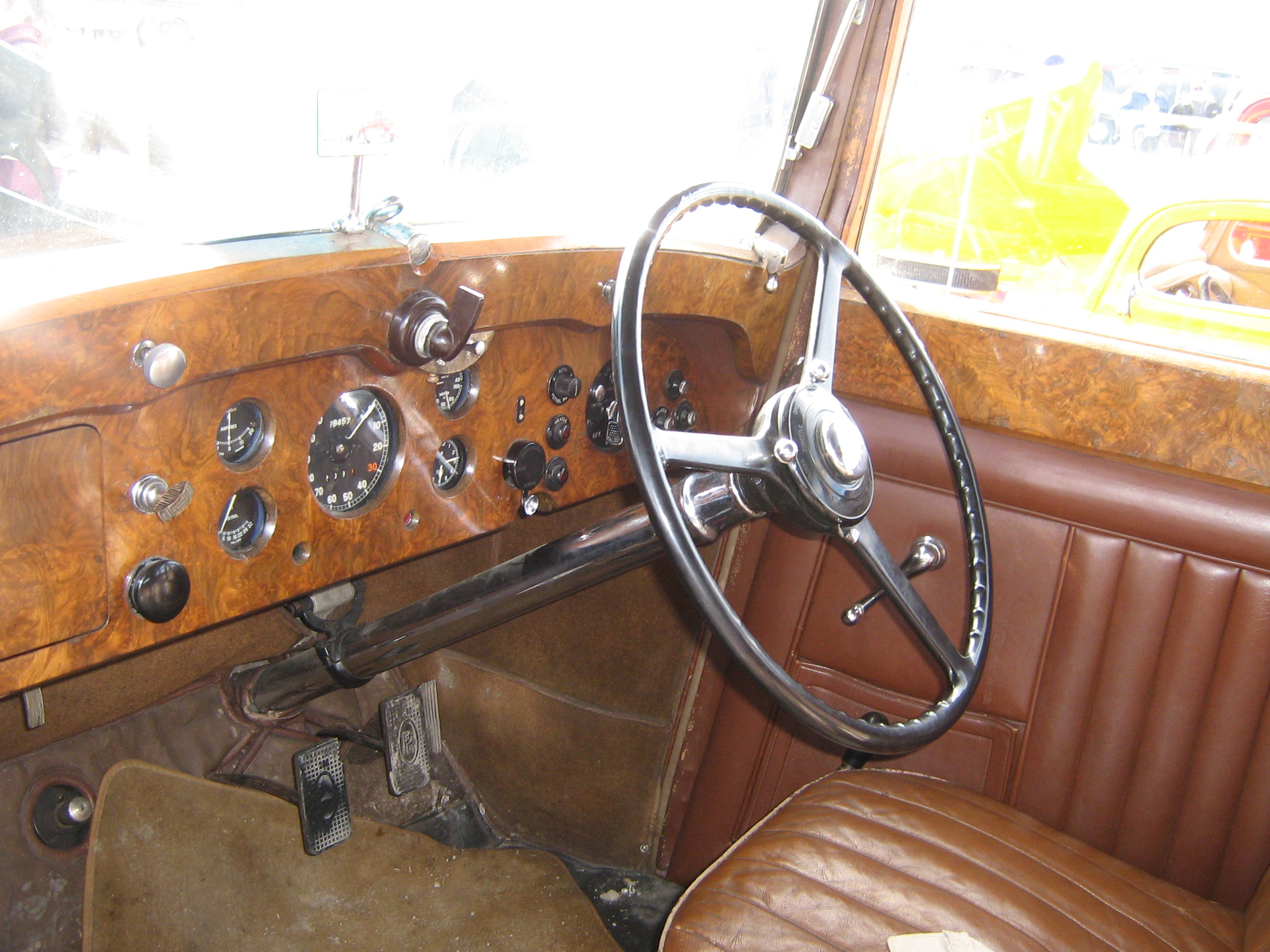 1937 Rolls Royce Phantom III Interior